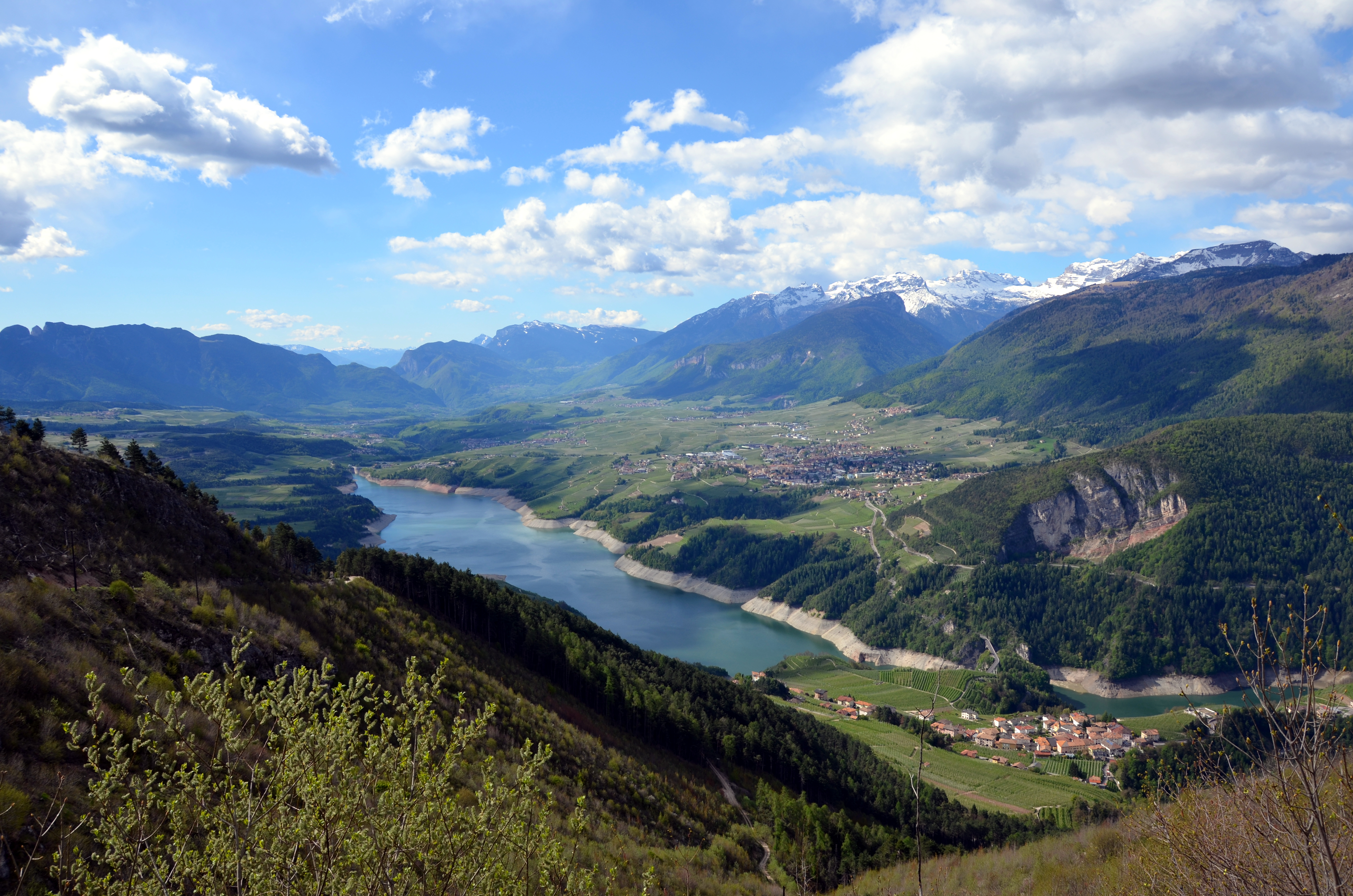 S. Giustina Lake, Cles, Val di Non